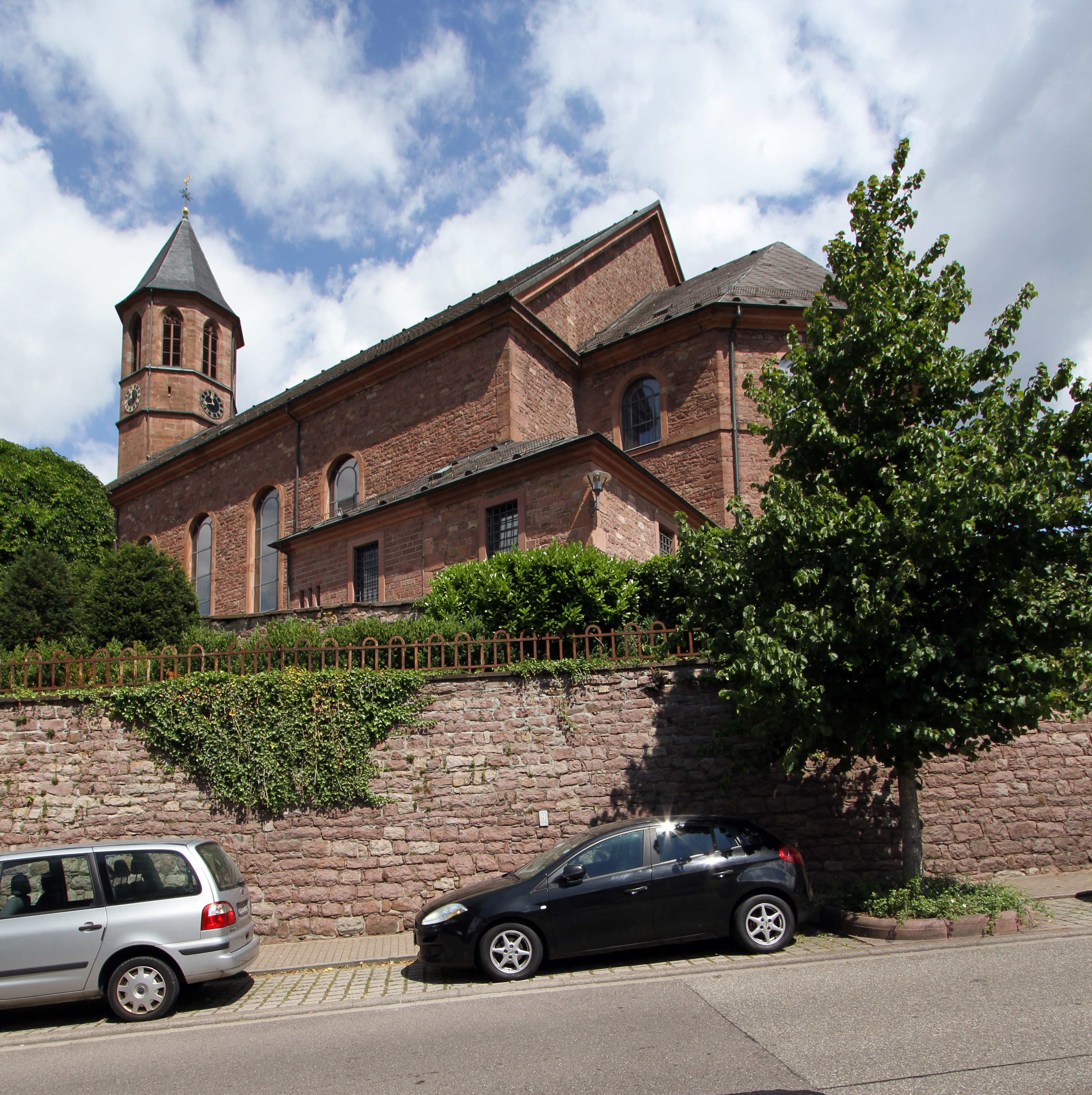 Church of St. Cyriak in Malsch.